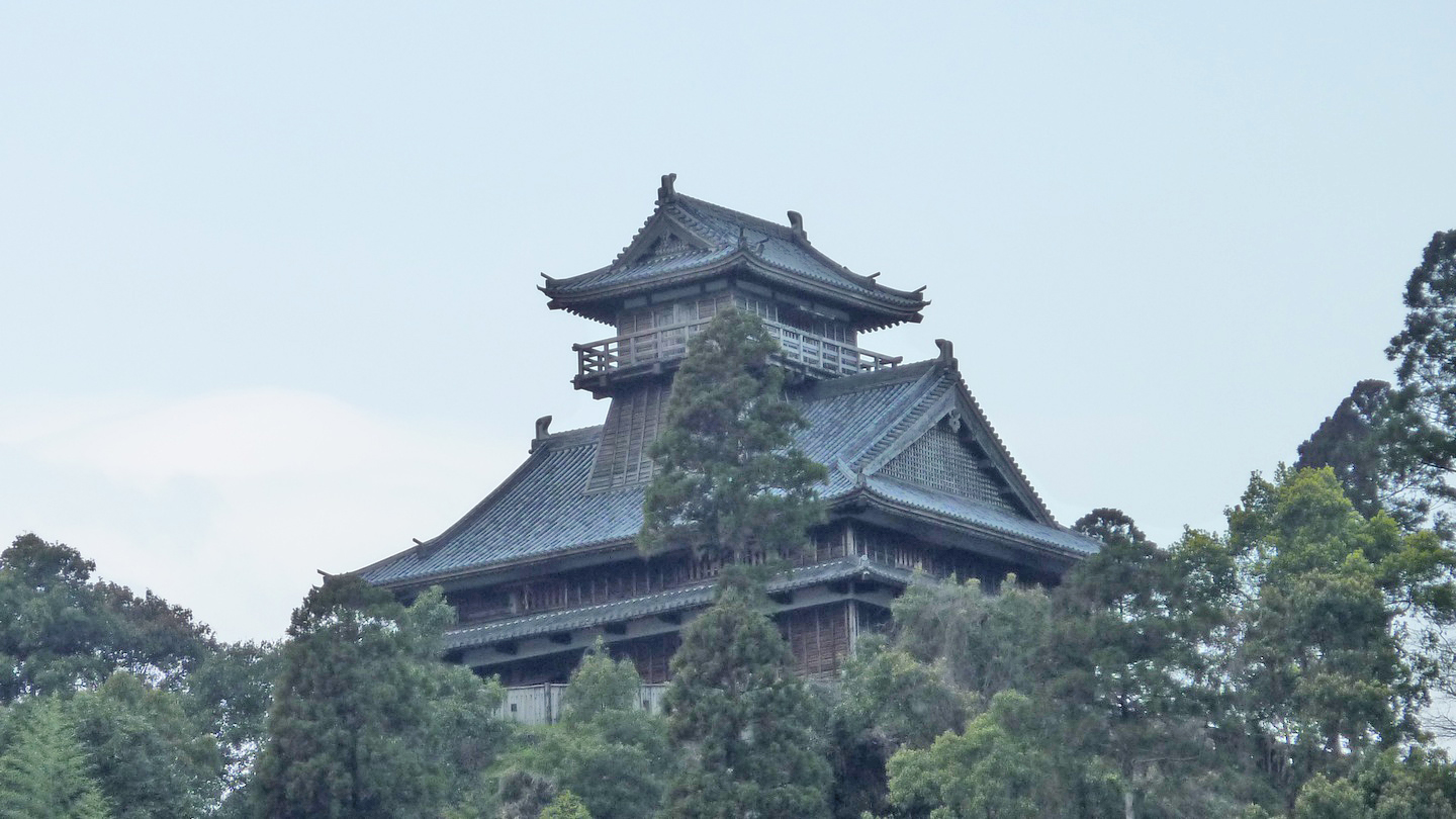 Aya Castle (Reconstruction) in Aya Town, Miyazaki Prefecture (Hyuga), Japan